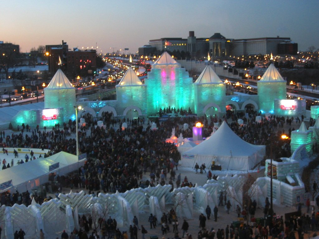 The en:2004 Saint Paul Winter Carnival ice castle as seen from inside the Xcel Energy Center during the NHL All-Star Weekend. Category:Images of Saint Paul, Minnesota